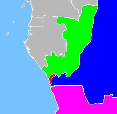 Map showing Cabinda (a exclave province of Angola formerly known as Portuguese Congo) together with the Republic of Congo, the Democratic Republic of Congo and Angola